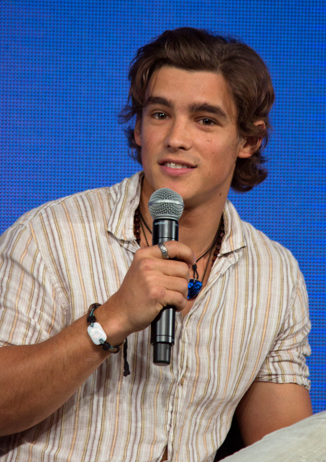 Actor Brenton Thwaites at Nerd HQ 2014's panel for The Giver